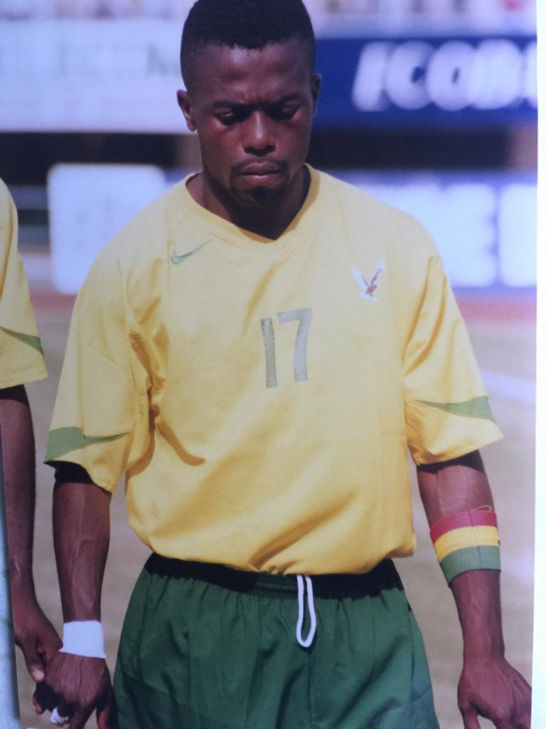 Mohamed Kader Touré before Togo - Liberia in 2006.